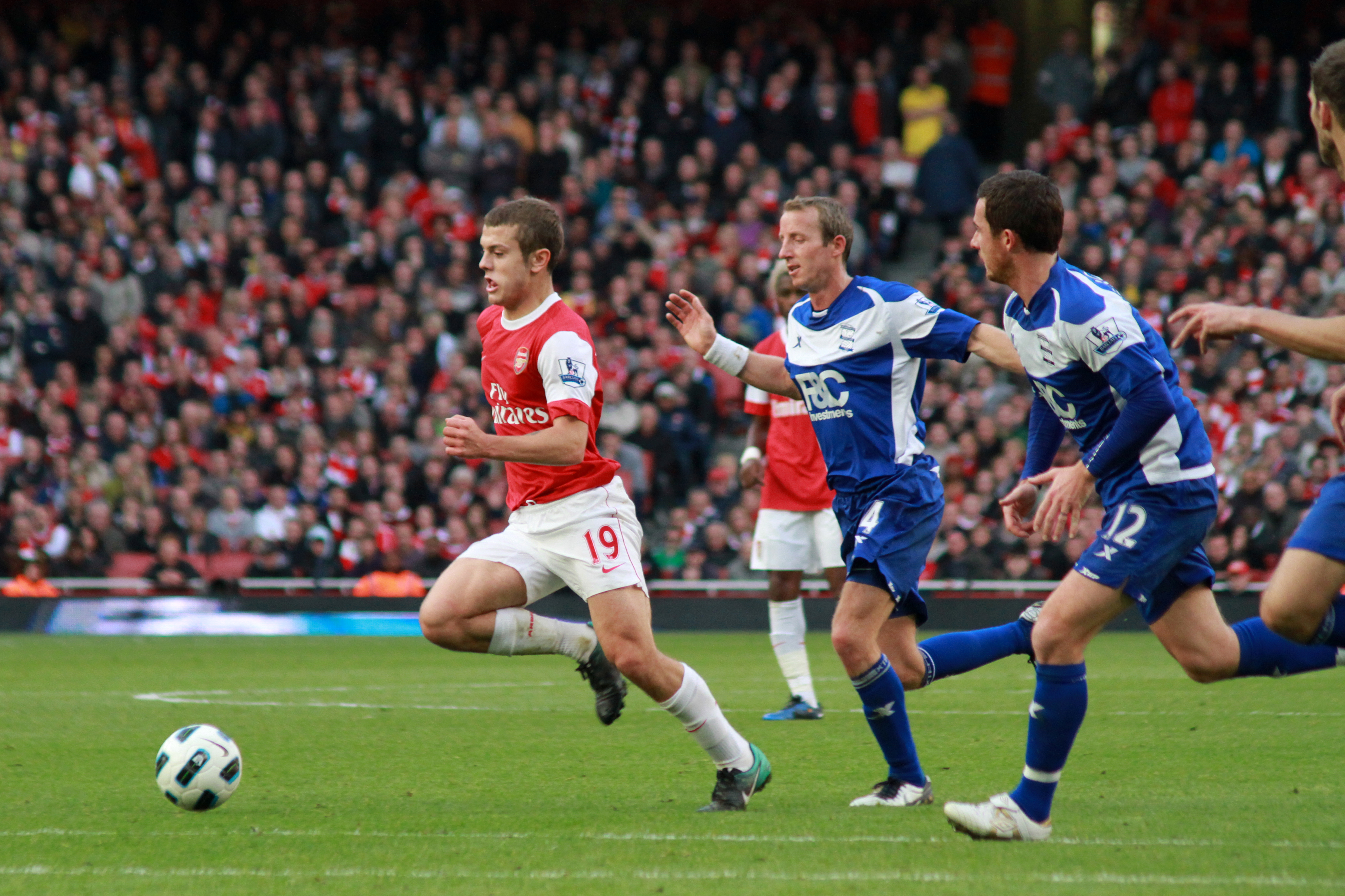 Arsenal v Birmingham City The Emirates 16 October 2010 (2-1)